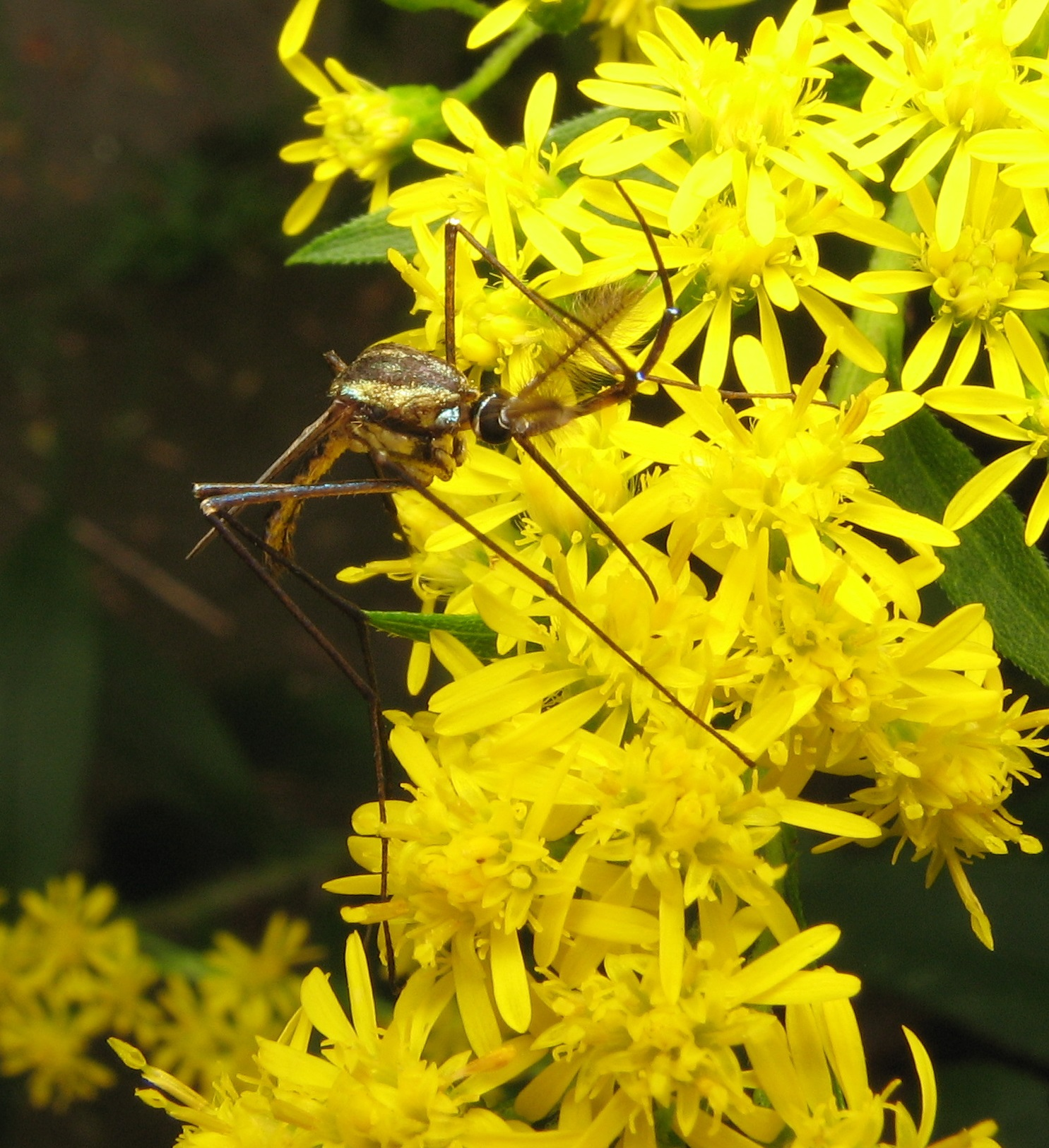 Elephant mosquito, Toxorhynchites rutilus male, on goldenrod. Churchville Nature Center, Bucks County, Pennsylvania, USA.